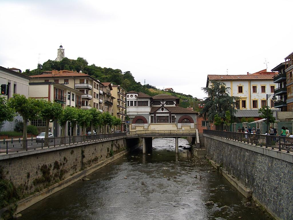 Urola River in downtown Azkoitia. San Martin church can be seen on top of a hill on the left.